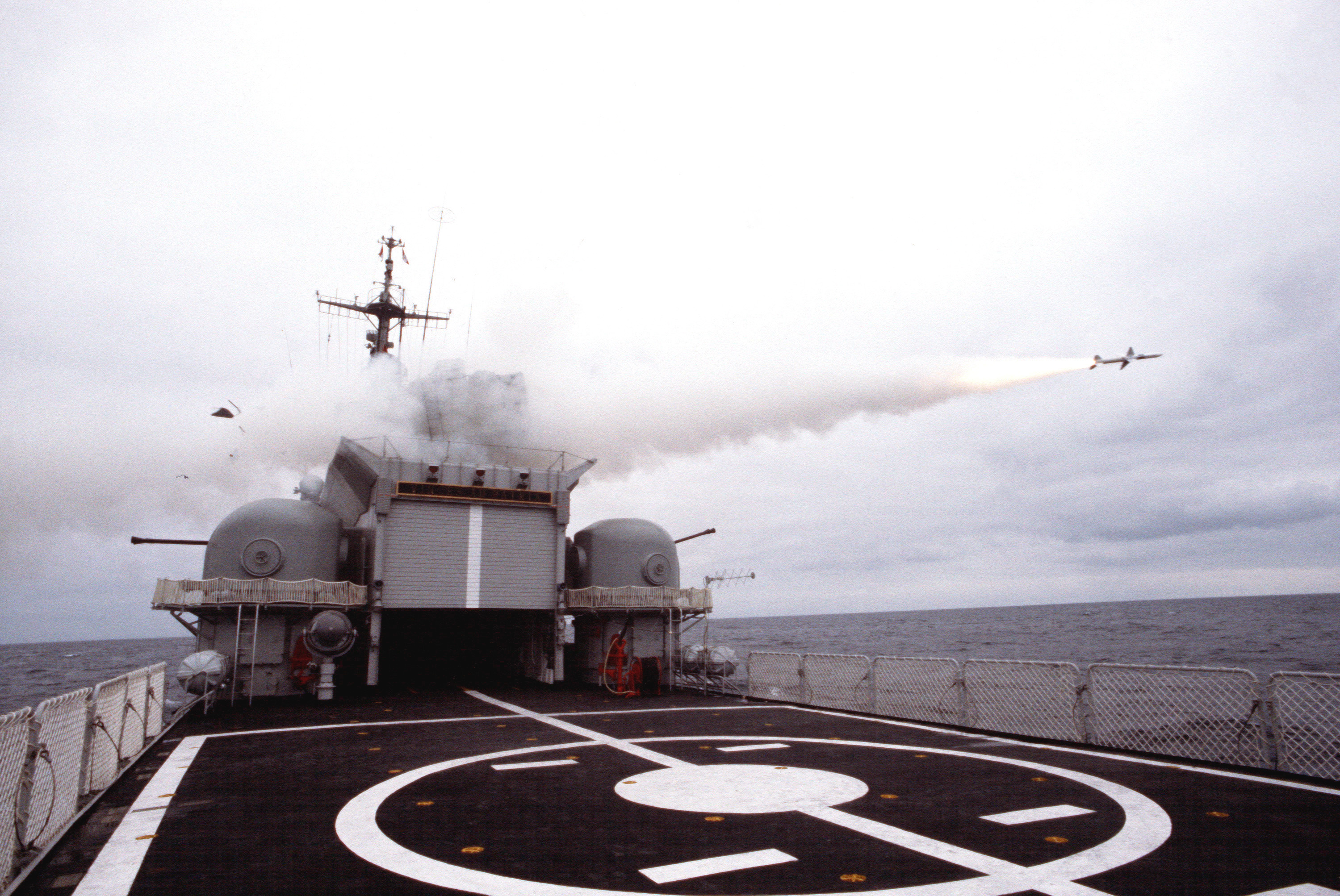 ID: DN-ST-85-08192 - An Aspide multirole missle is launched from the Venezuelan frigate ALMIRANTE JOSE DE GARCIA (F 26) during Operation UNITAS XXV